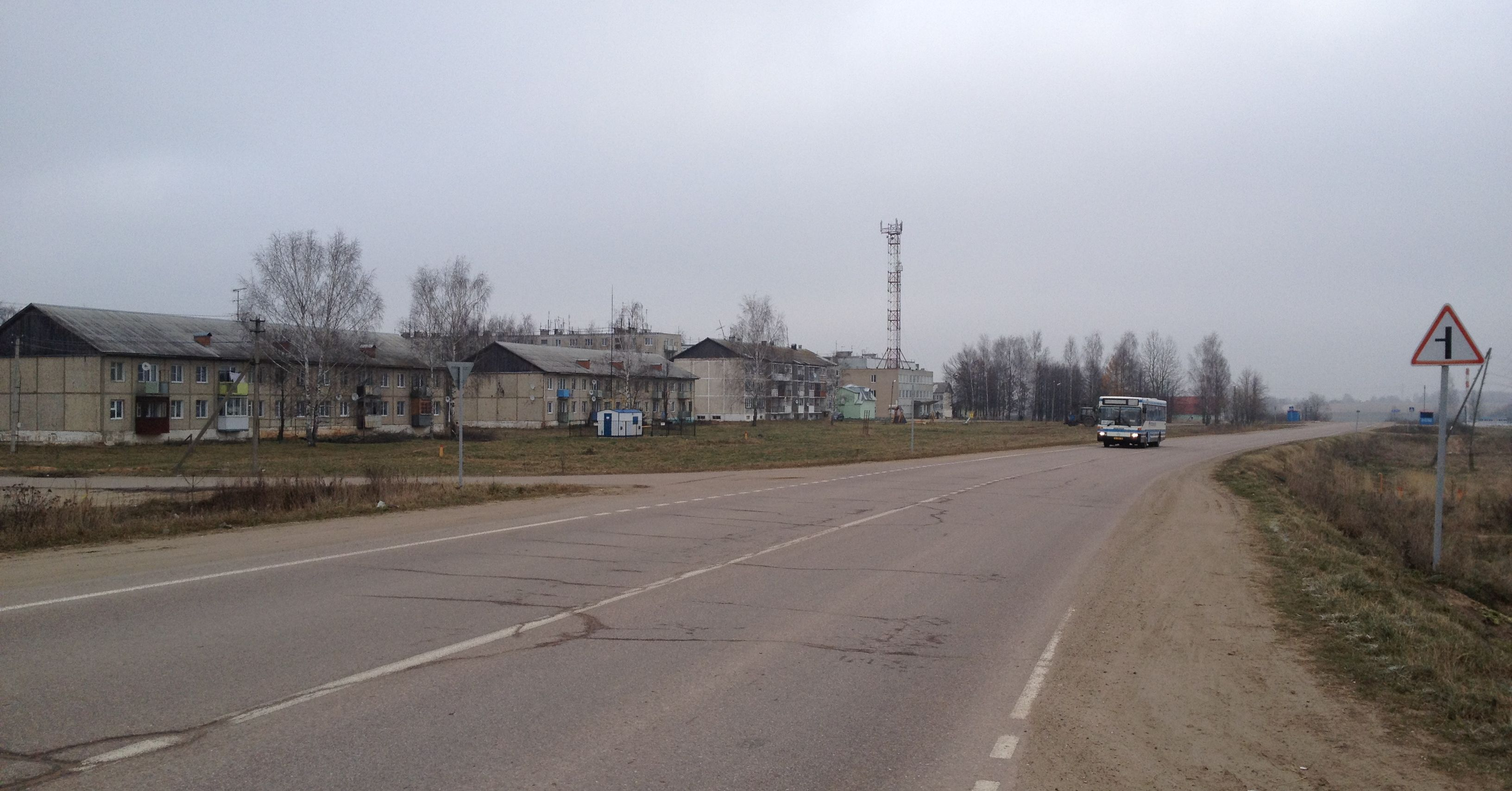 Pavlovichi (Taldomsky district, Moscow oblast).